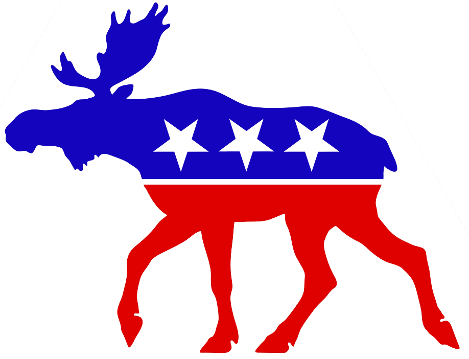 Progressive Party Bull Moose